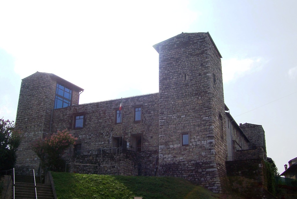 Iseo Castle